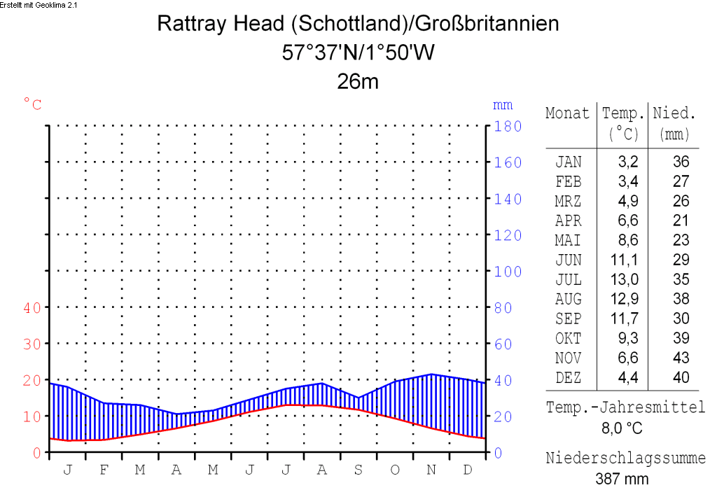 climate chart in the format by Walter and Lieth, metric, °Celsisus and millimeters, made with Geoklima 2.1